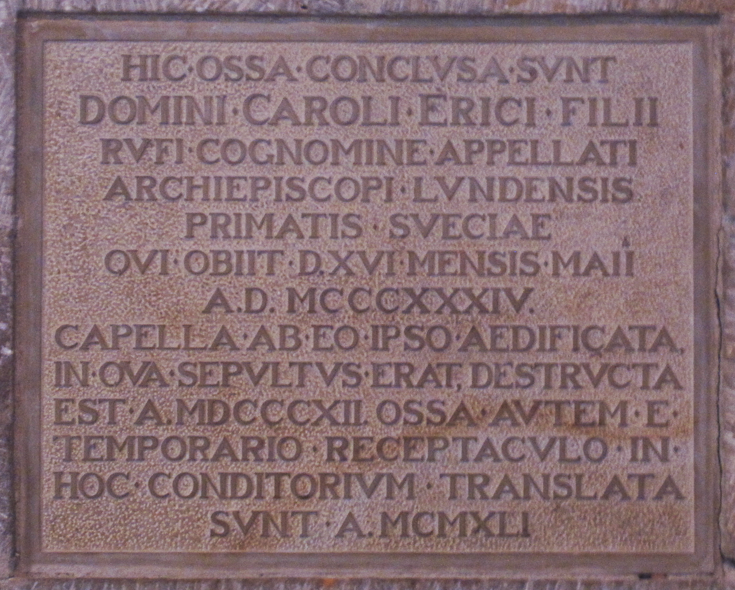 Late commemorative plaque for Karl Eriksen (died 1334), bishop of the Diocese of Lund 1325-1334.